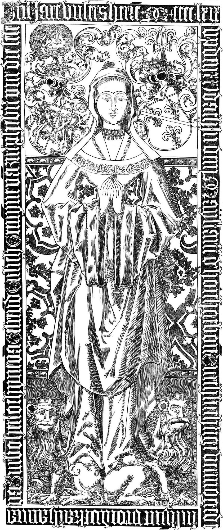 Tombstone of Catherine of Bourbon, duchess of Guelders (1440-1469), Sint-Stevenskerk, Nijmegen, the Netherlands.